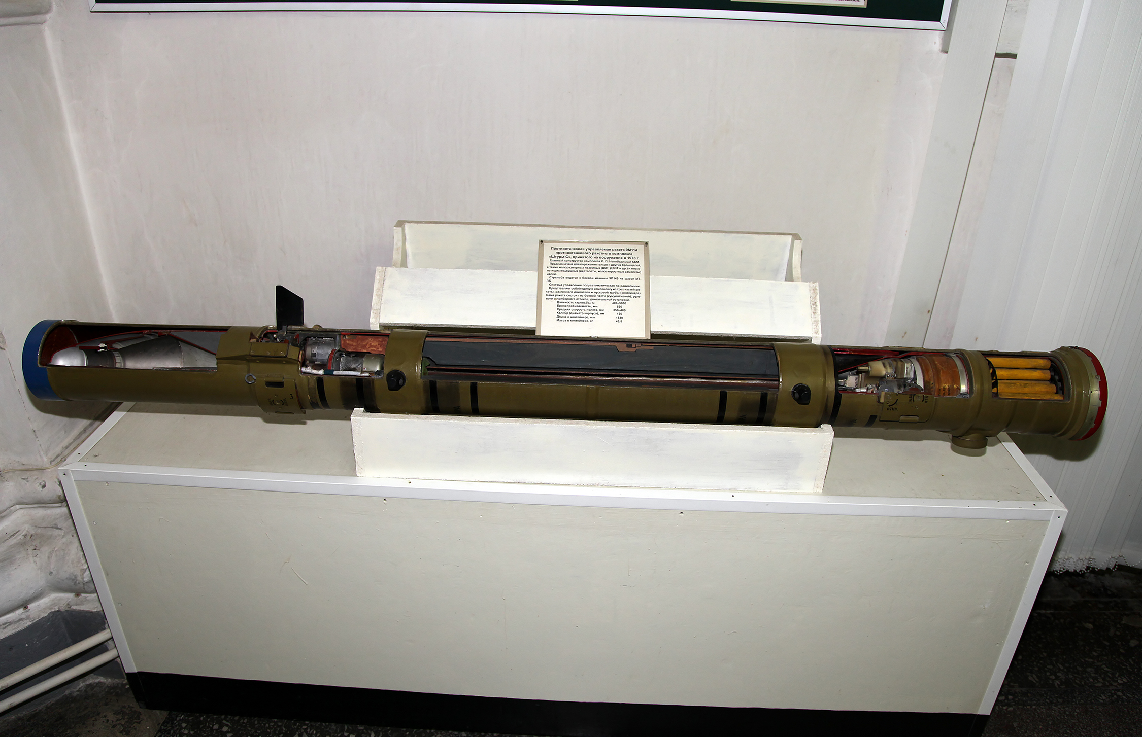 9M114 ATGM for 9K114 Shturm-S system